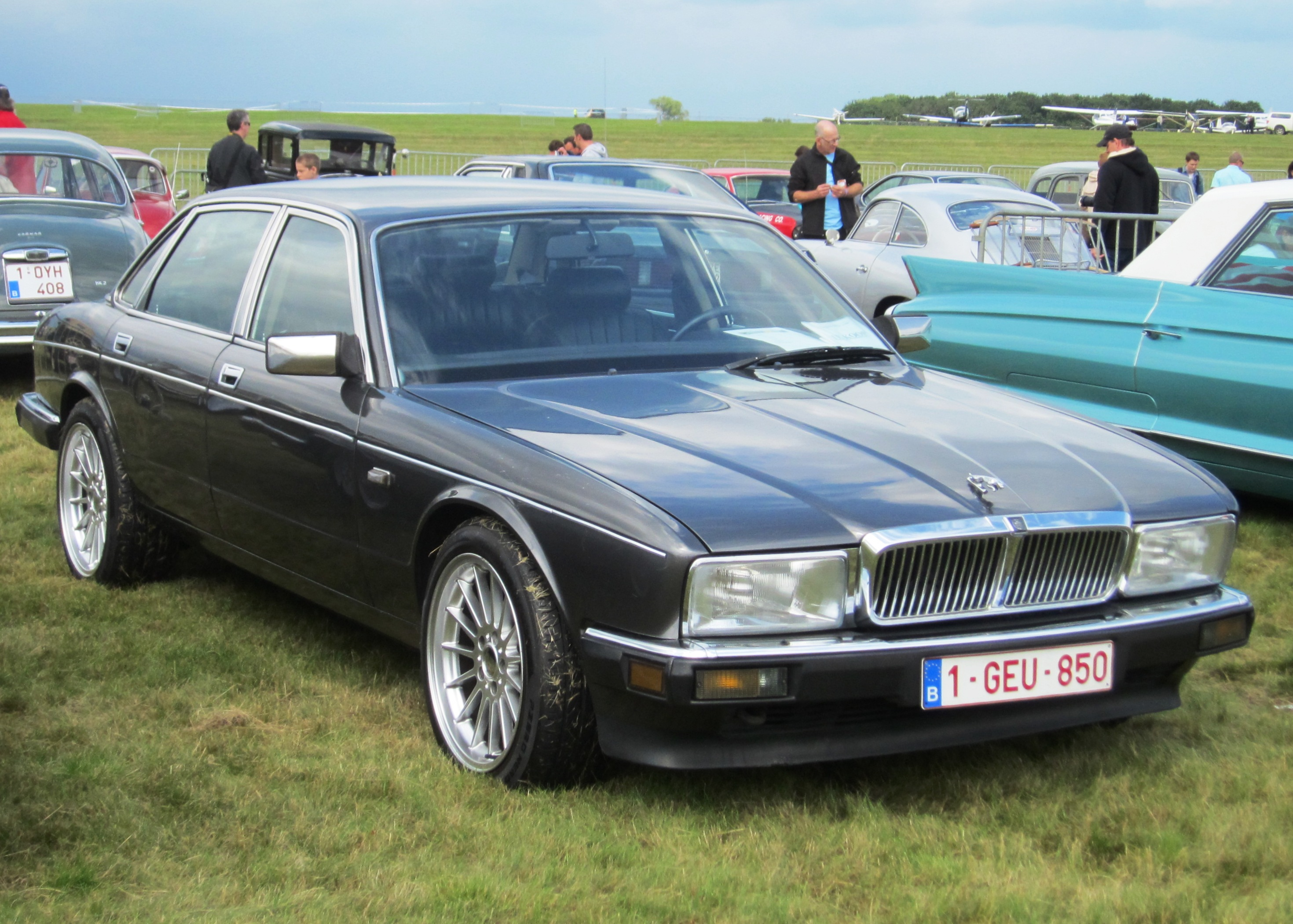 Jaguar Sovereign (1988)